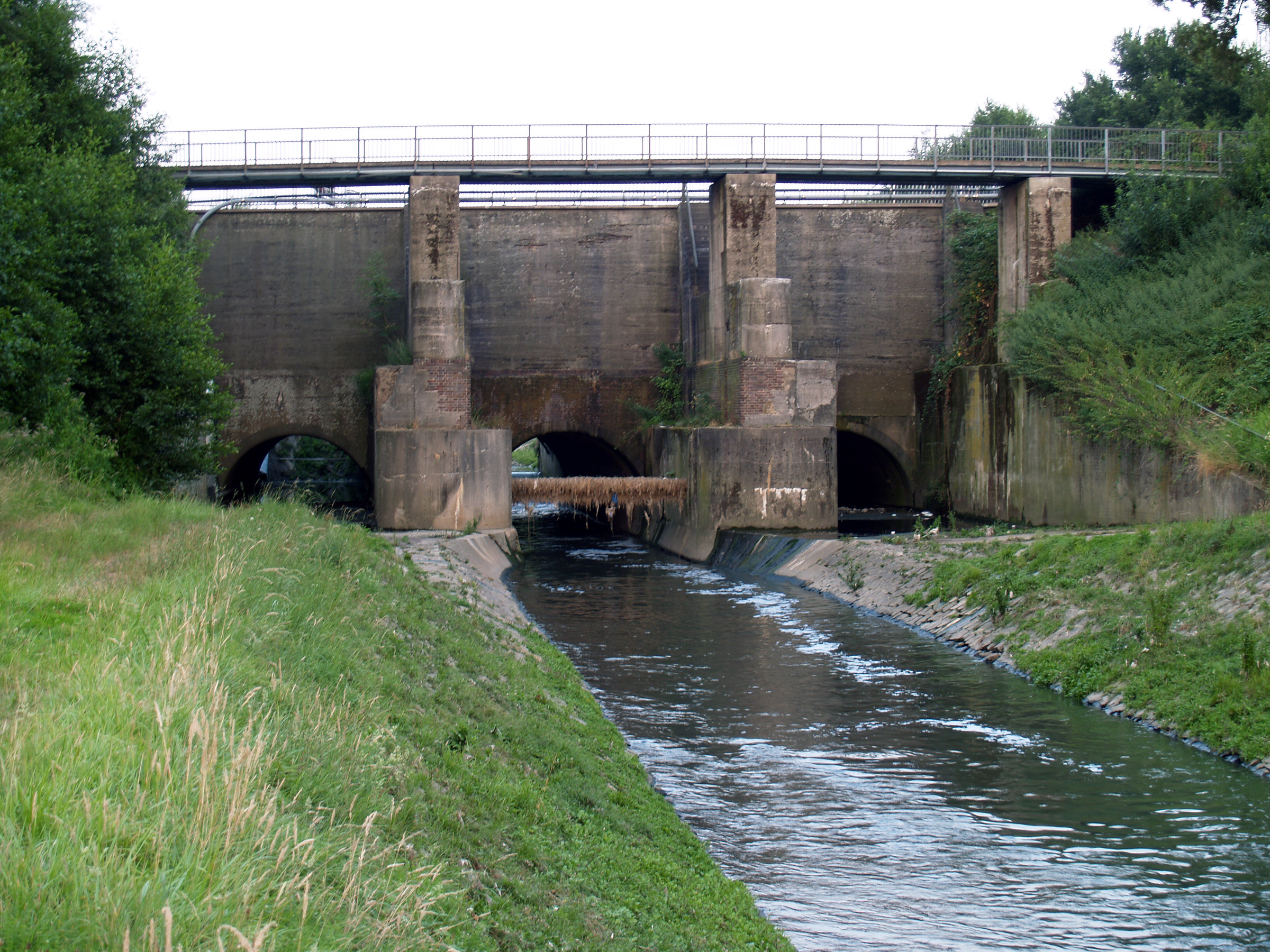 Emscher river passing the Rhine-Herne-Canal above